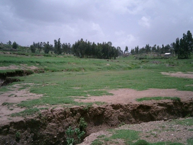 Haplic Fluvisol in Atsbi Ethiopia